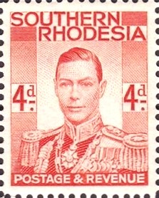 Southern Rhodesia 4d stamp